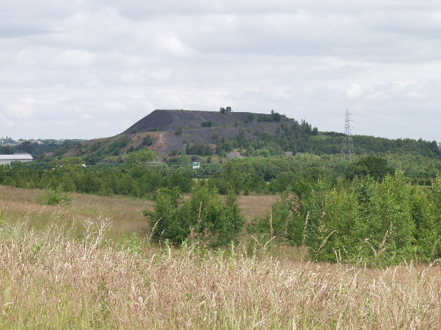 Bersham Colliery Bing at Rhostyllen. A relatively modern bing as it has a flat top and even profile produced by large scale mechanical distribution. There is a planning application to remove this bing to provide coal and aggregate.